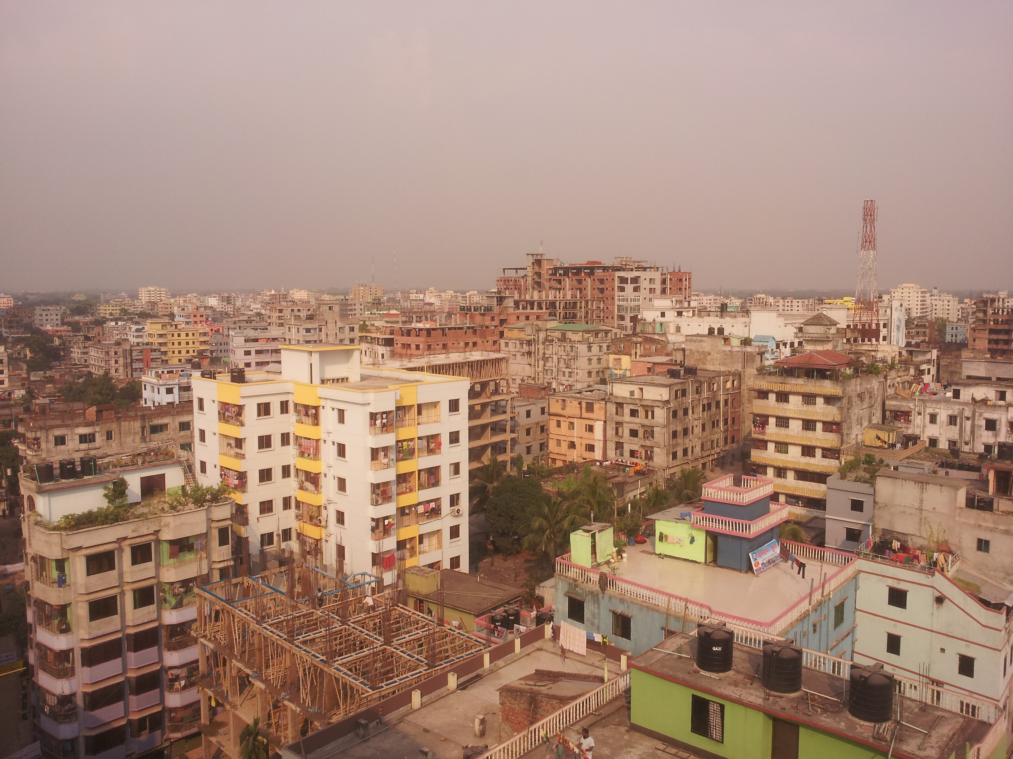 Savar municipality, Dhaka.